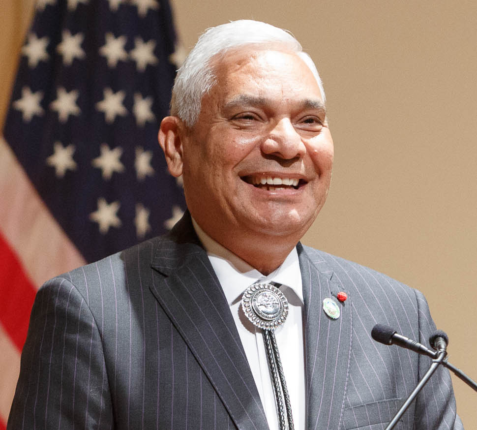 Muscogee Creek Nation Principal Chief James Floyd speaks at the opening event of Joy Harjo's term as the 23rd Poet Laureate, September 19, 2019. Photo by Shawn Miller/Library of Congress. Note: Privacy and publicity rights for individuals depicted may apply.